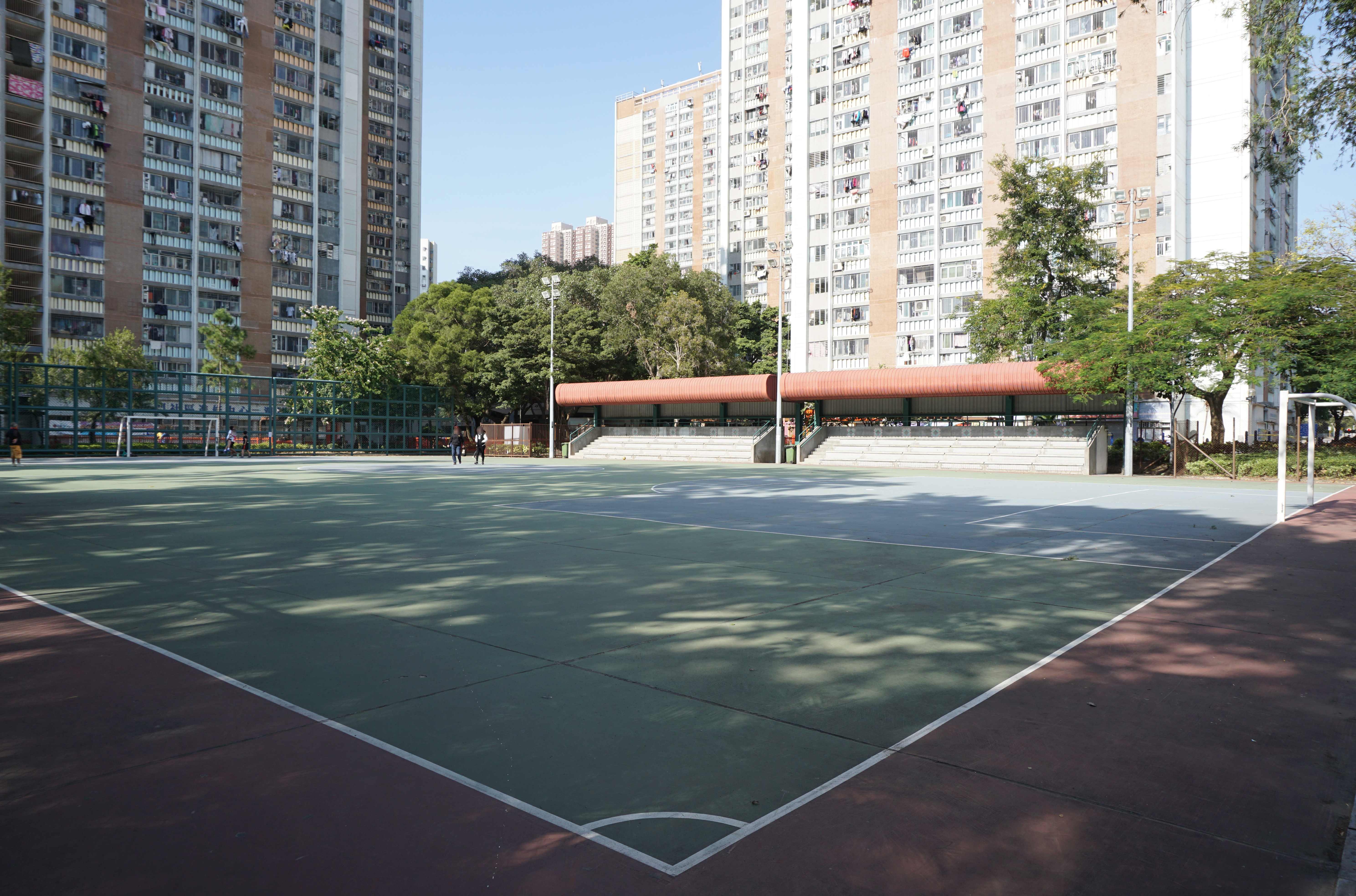 Wu King Estate in Tuen Mun, Hong Kong.